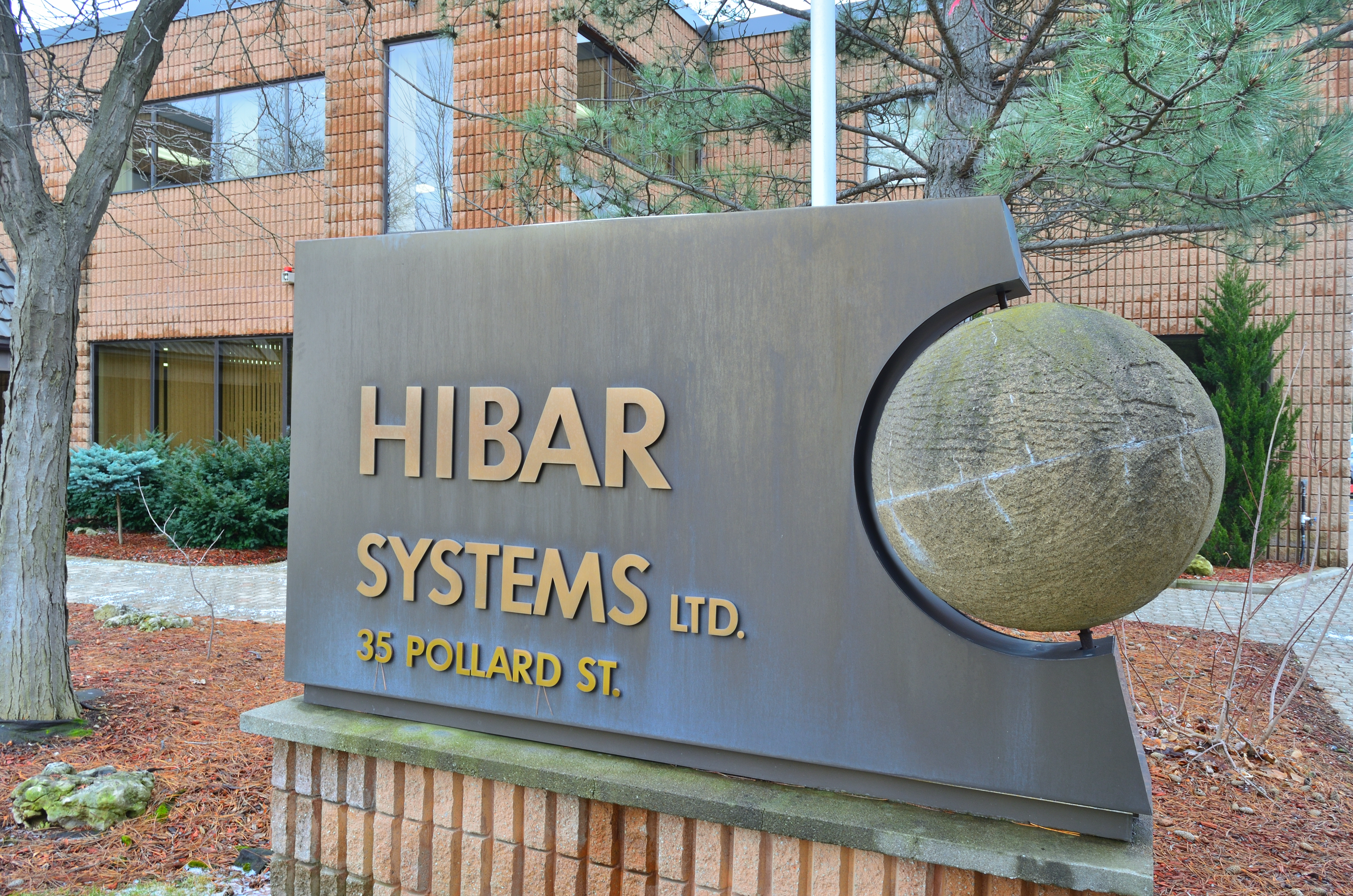 Hibar Systems office - Address: 35 Pollard St, Richmond Hill, ON L4B 1A8